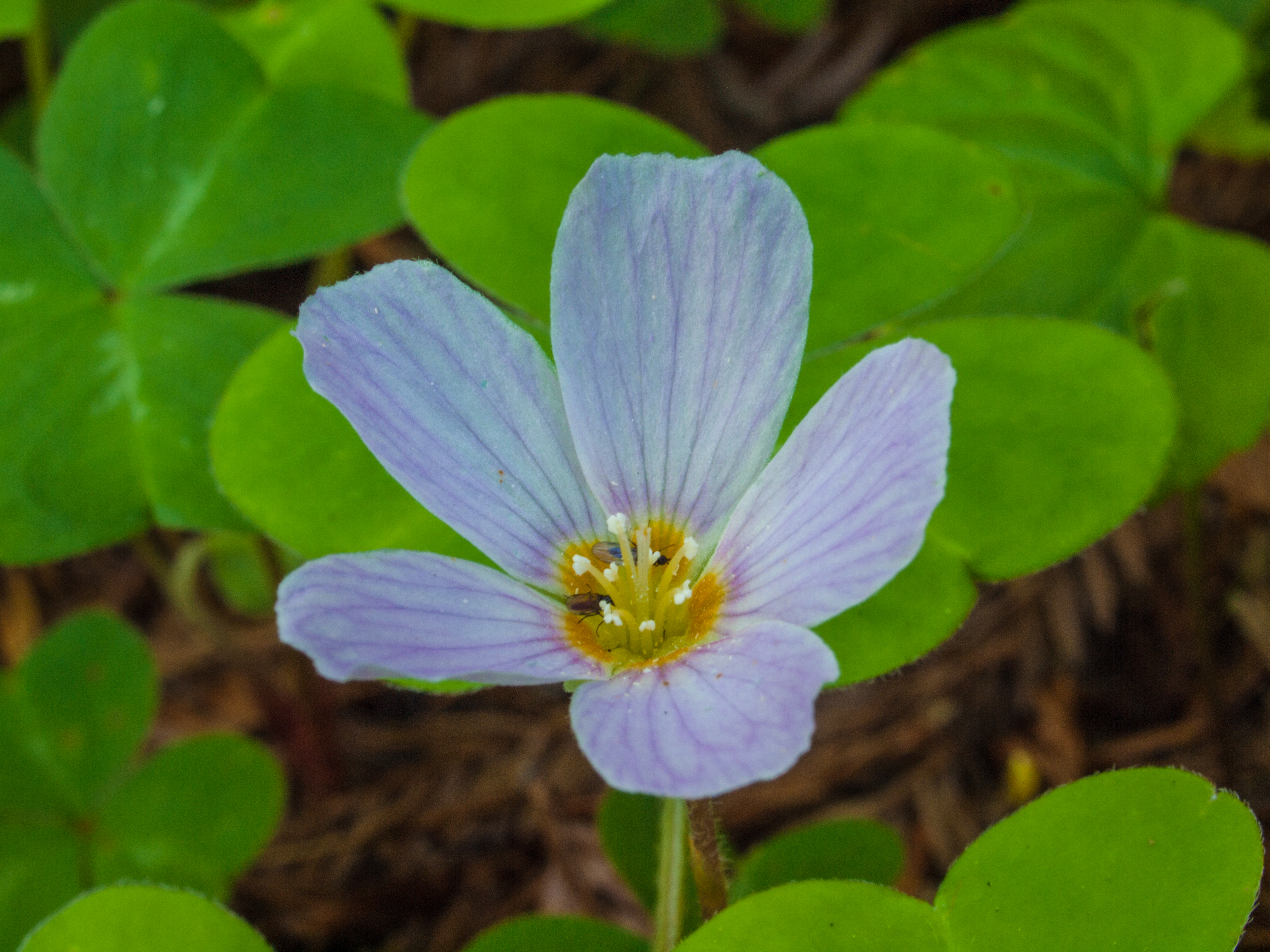 Redwood-sorrel (Oxalis oregana) Butano State Park, CA